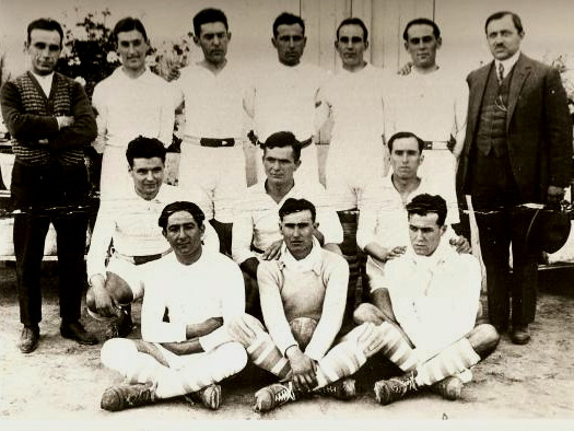 This is picture of Sporting Club Bel-Abbès team of soccer, winner of North-Africa Champions between 1923 and 1926